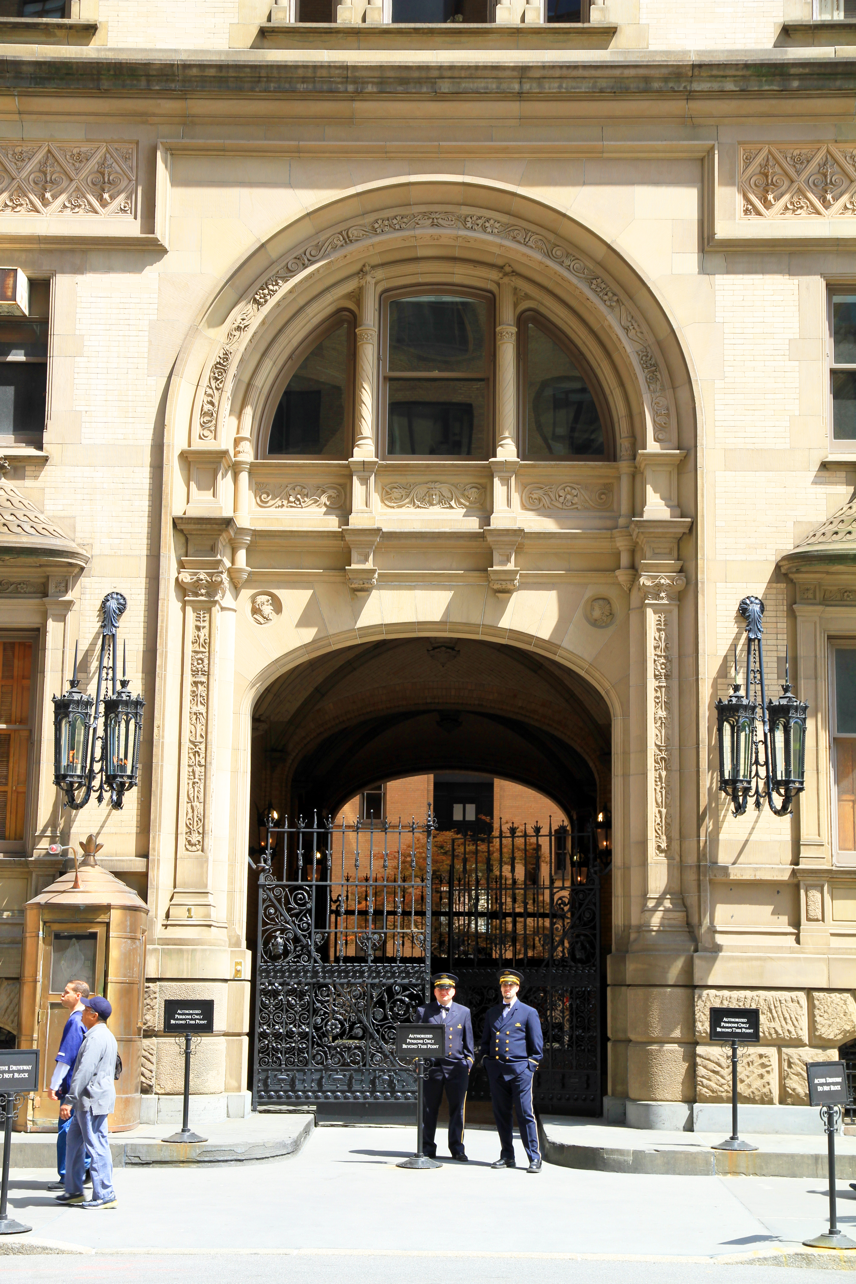 Dakota Building